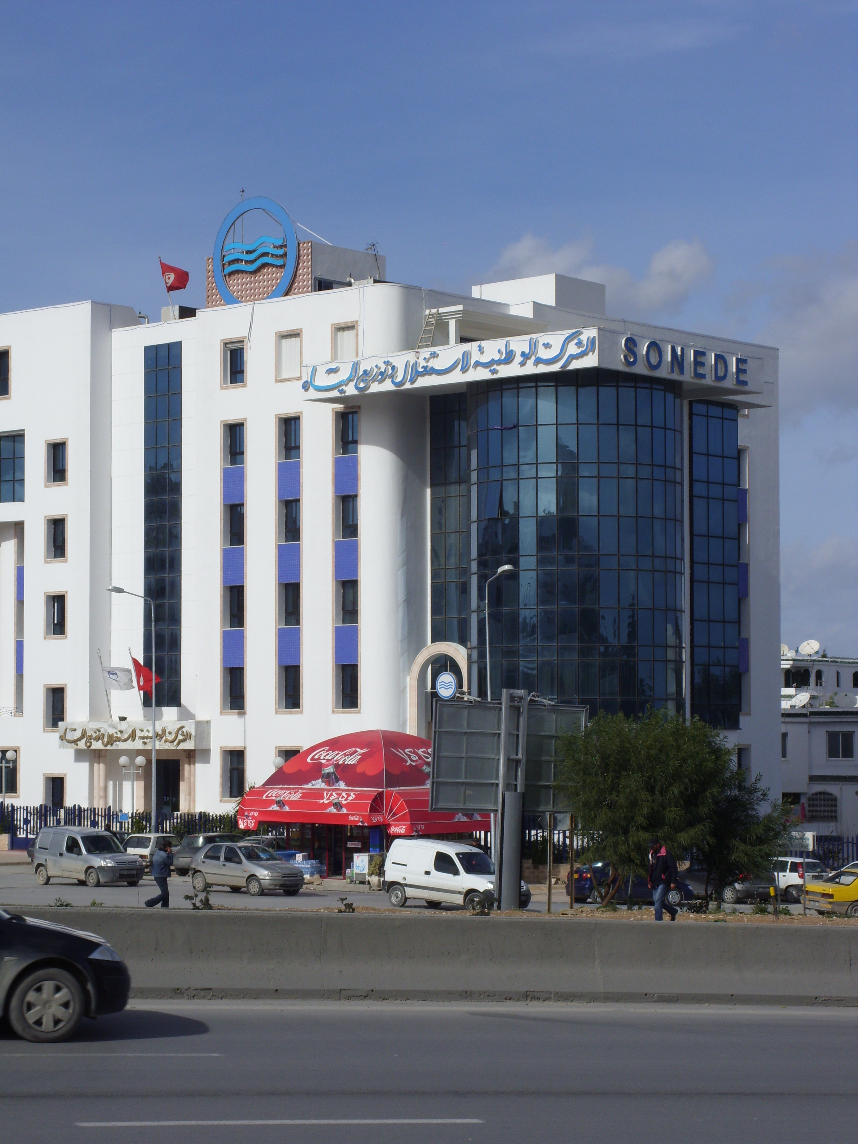 Sonede company headquarters